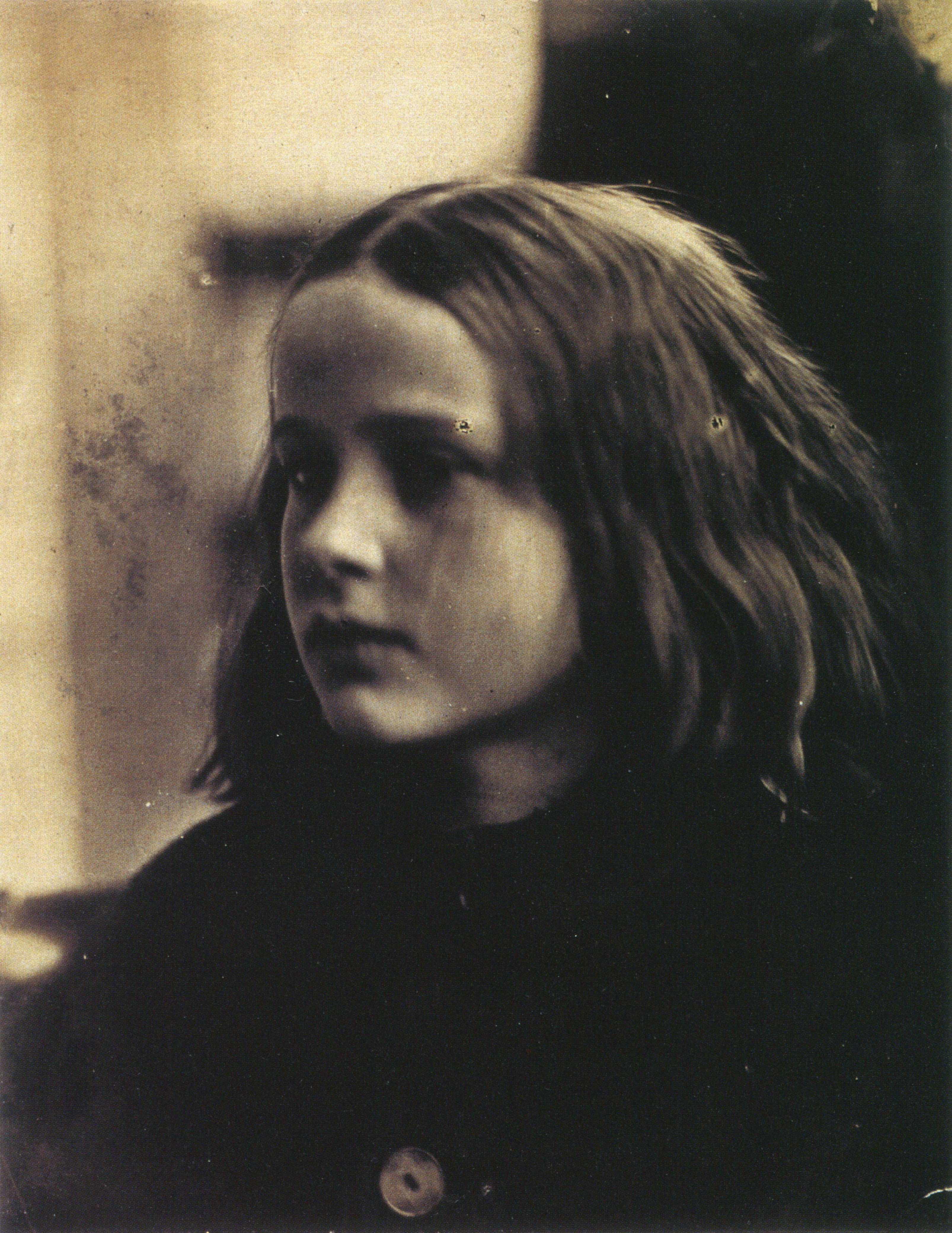 "Annie my first success", Julia Margaret Cameron's first photo that she was pleased with. Subject is Annie Wilhelmina Philpot (1854-1930). Albumen print, 188 x 145 mm (7 3/8 x 5 3/4"). National Museum of Photography, Film & Television, Bradford. See also File:Letter to Annie's father, by Julia Margaret Cameron.jpg for the letter that accompanied this photograph.